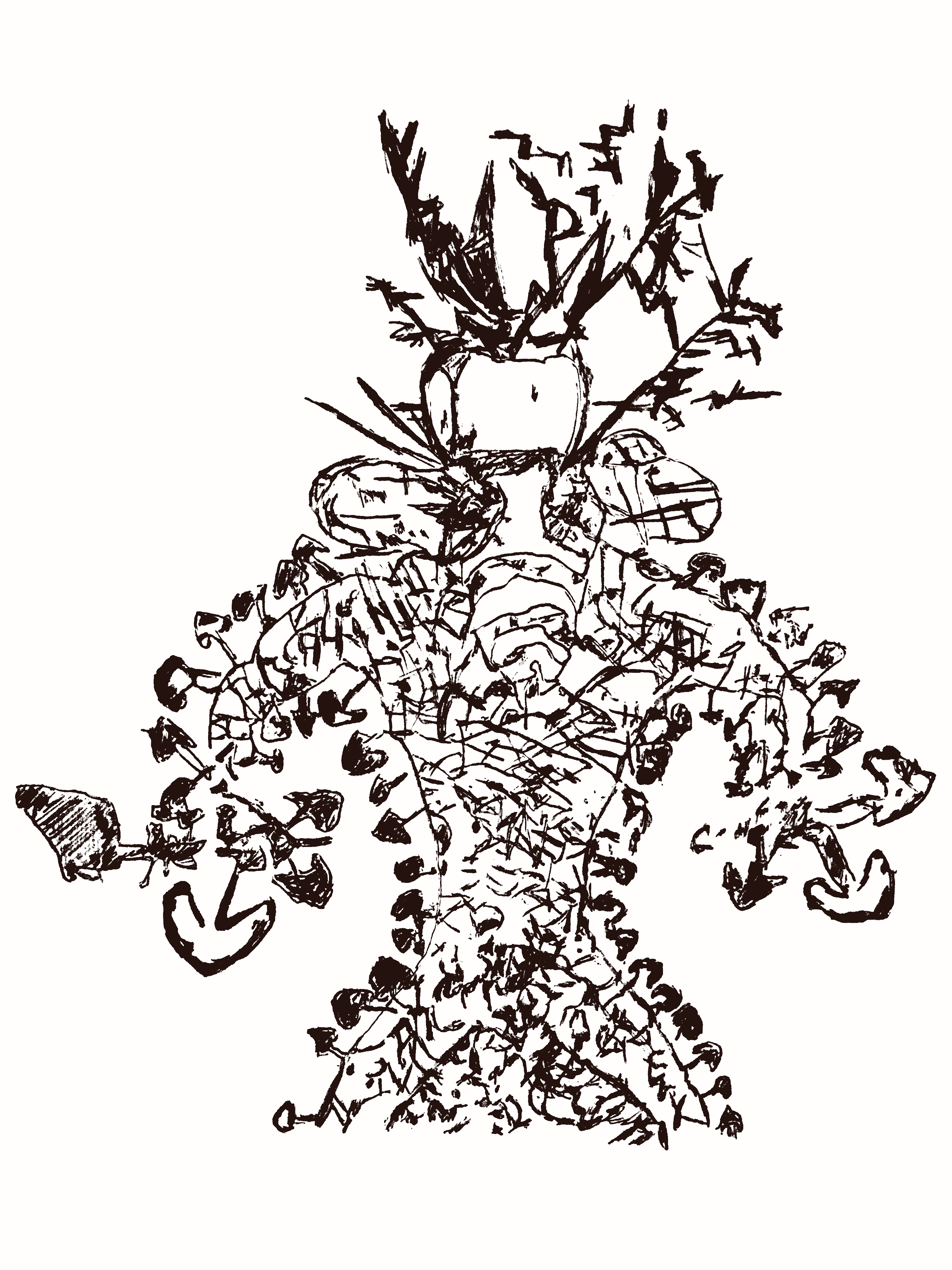 I redrawn the rock art written by ancient people. Fig 37 on [1] . I abandon my own copyright.